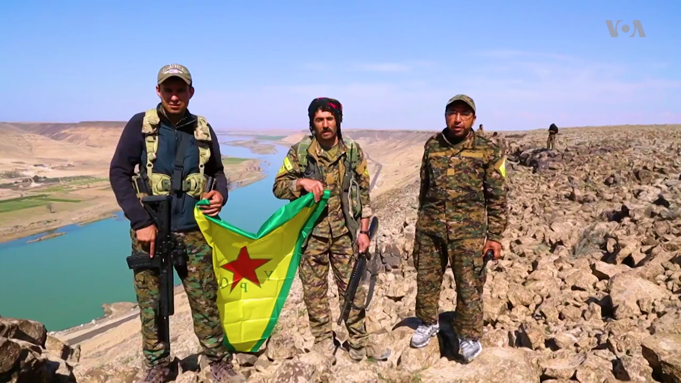 Fighters of the People's Protection Units of the Syrian Democratic Forces on the bank of the Euphrates east of the city of Raqqa in northern Syria.